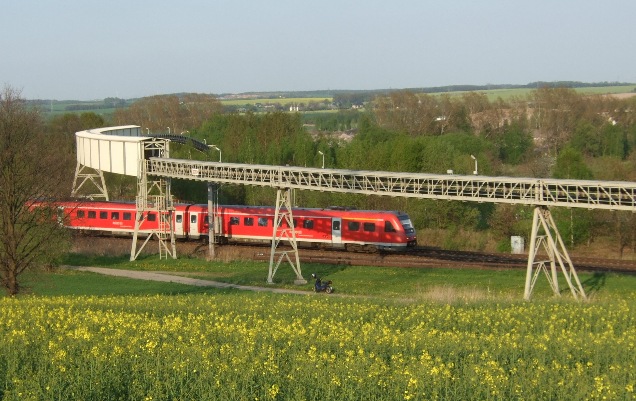 Pipe Conveyor, transporting radioactive materials from Crossen to Helmsdorf